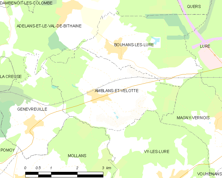 Map of French municipality